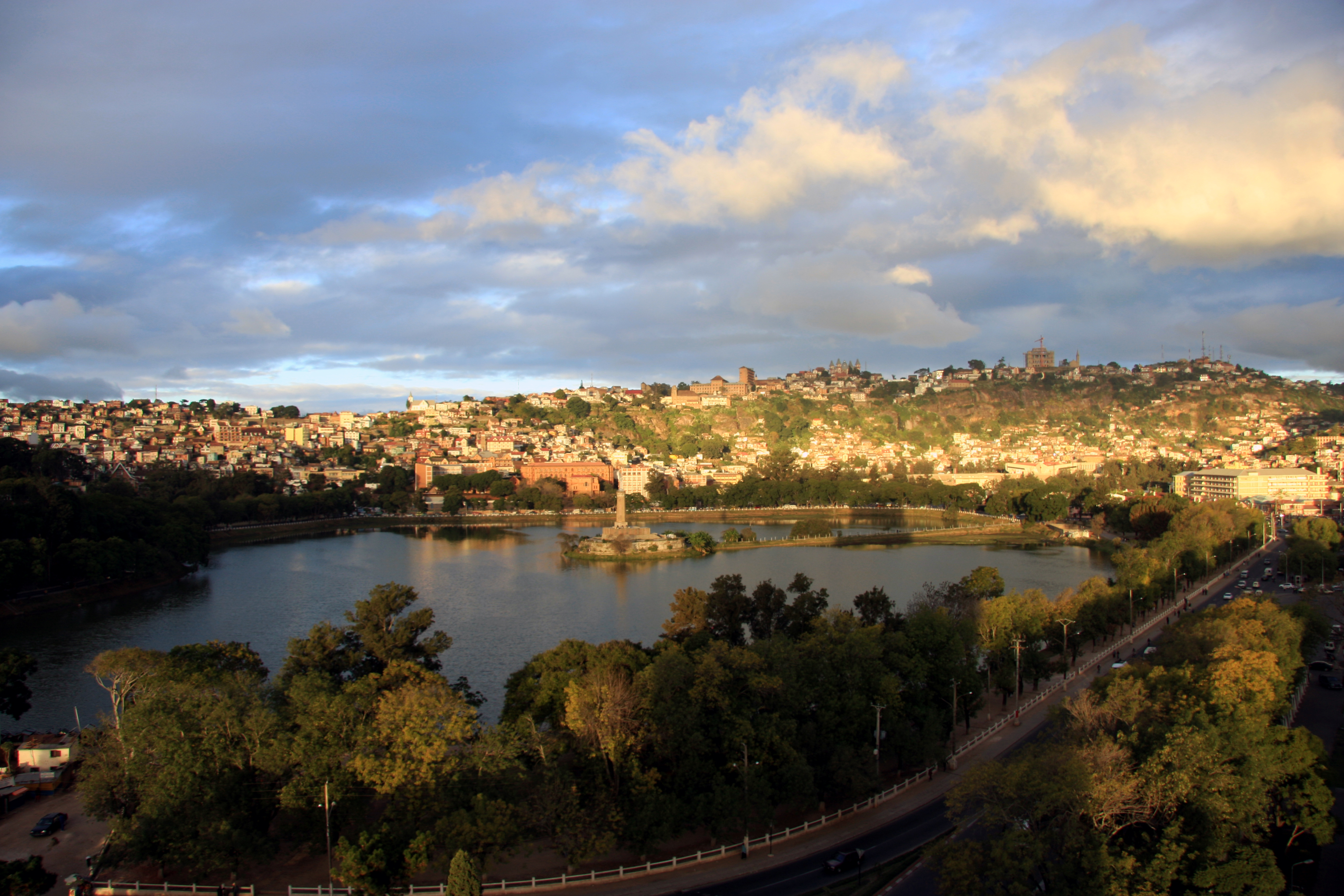 Antananarivo